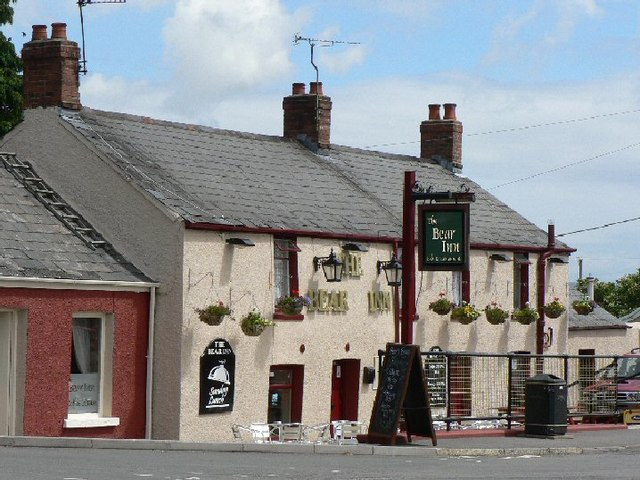 The Bear Inn, Llanharry.